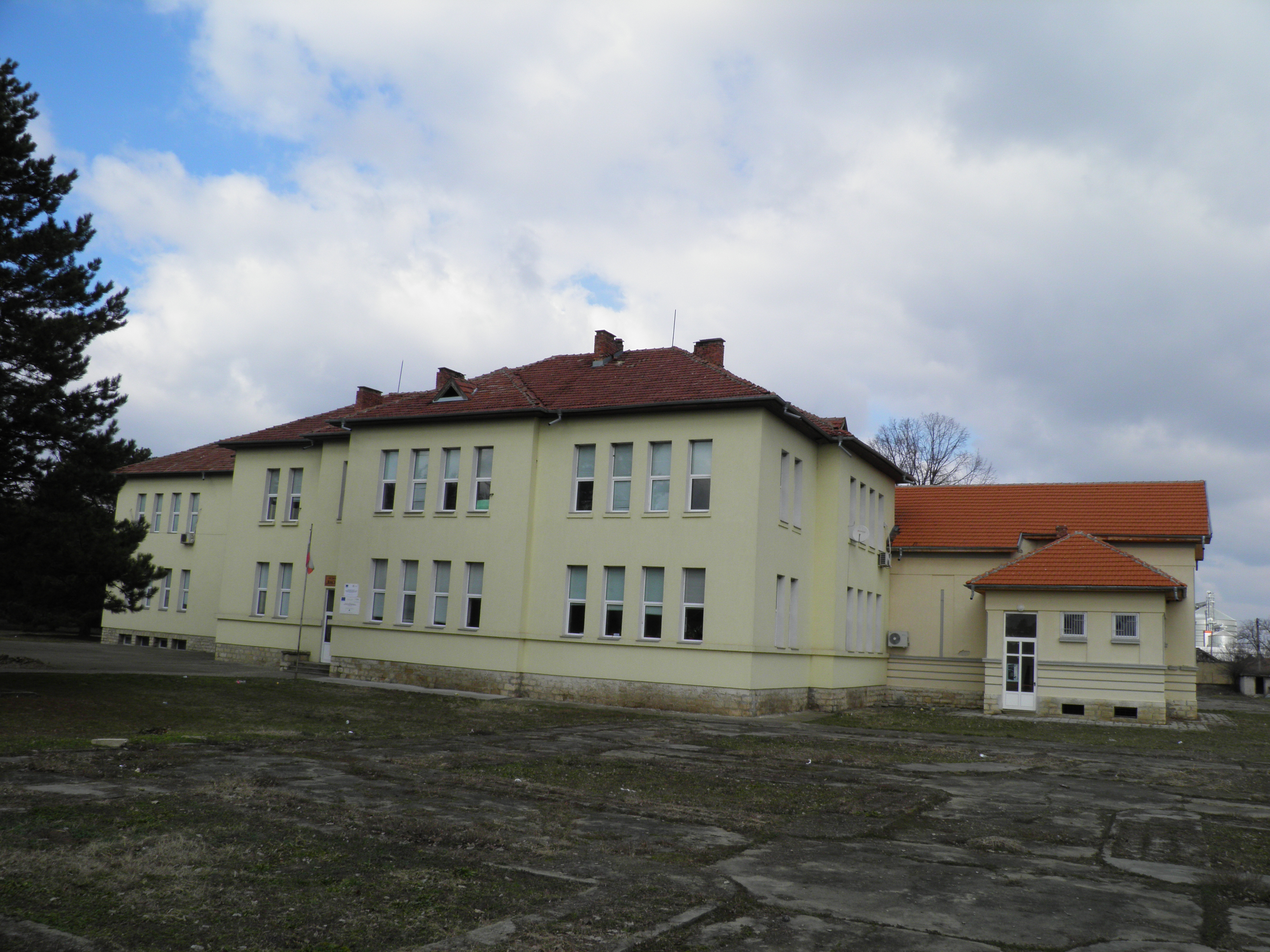 School in Petko Karavelovo